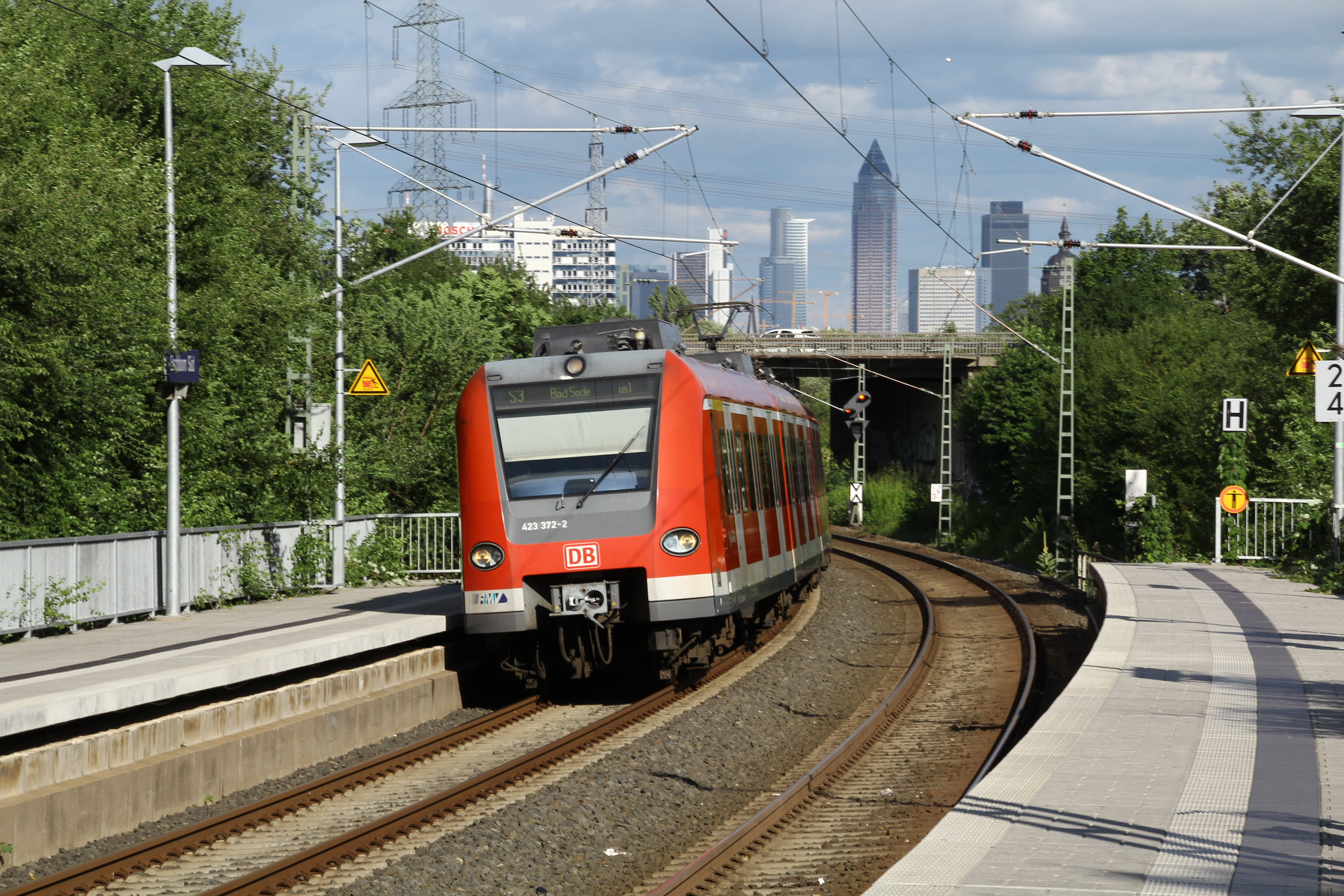 S3 train approaching Eschborn Süd station